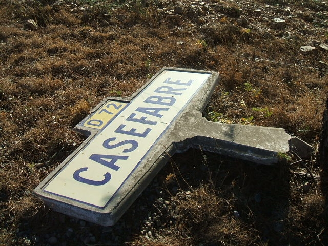 Casefabre : old Michelin concrete sign at the village entrance (dated 01-30-1952).